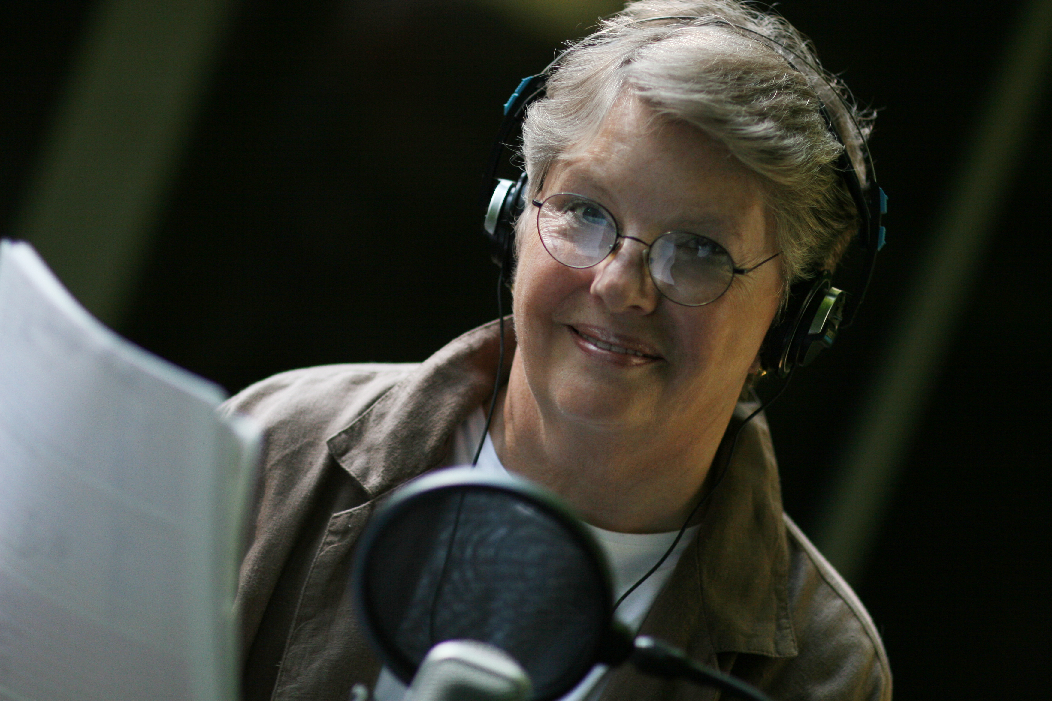 Well known American telephone voice and "voice of AT&T" Pat Fleet in studio with microphone and script.